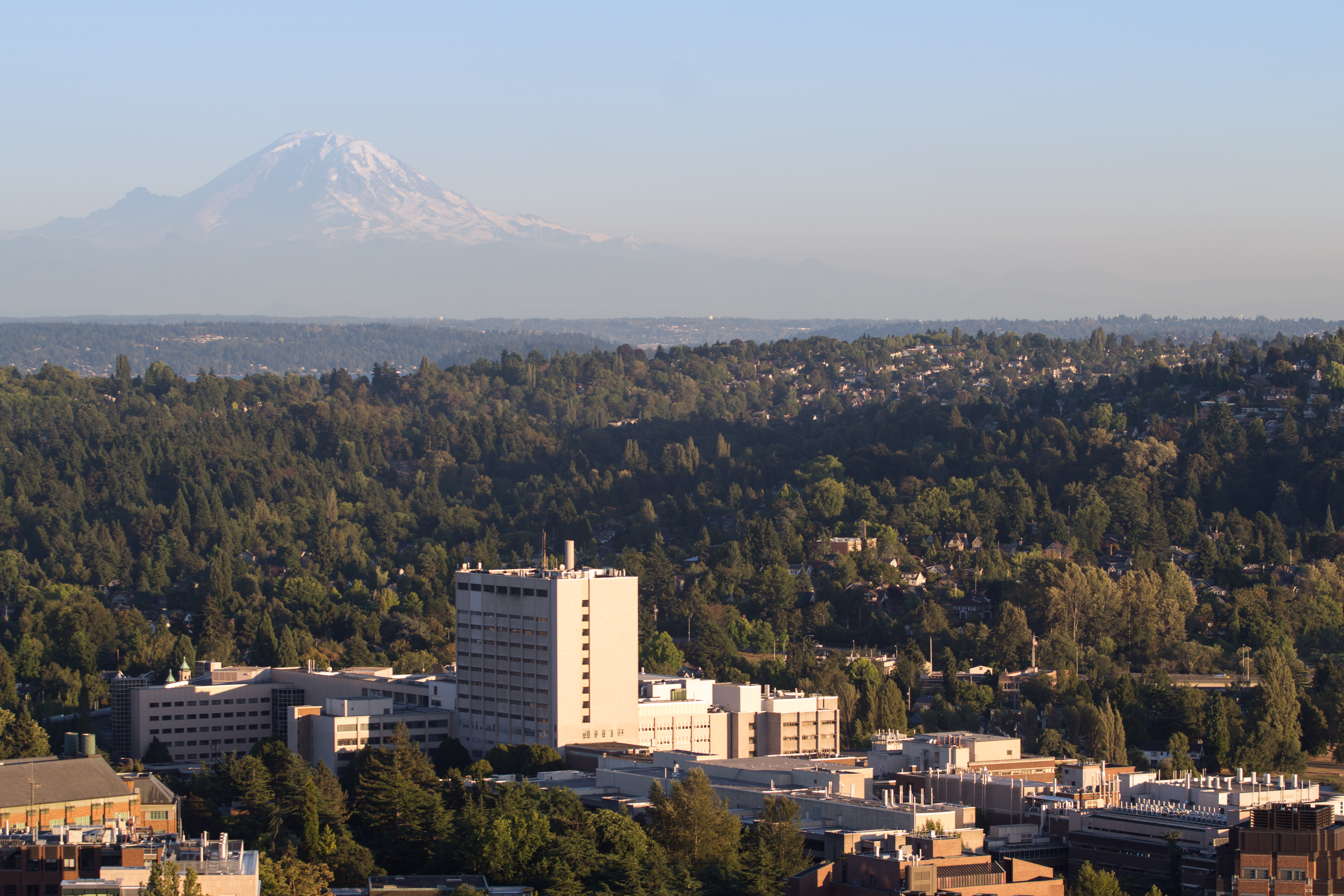 A view of the University of Washington Medical Center in Seattle, Washington